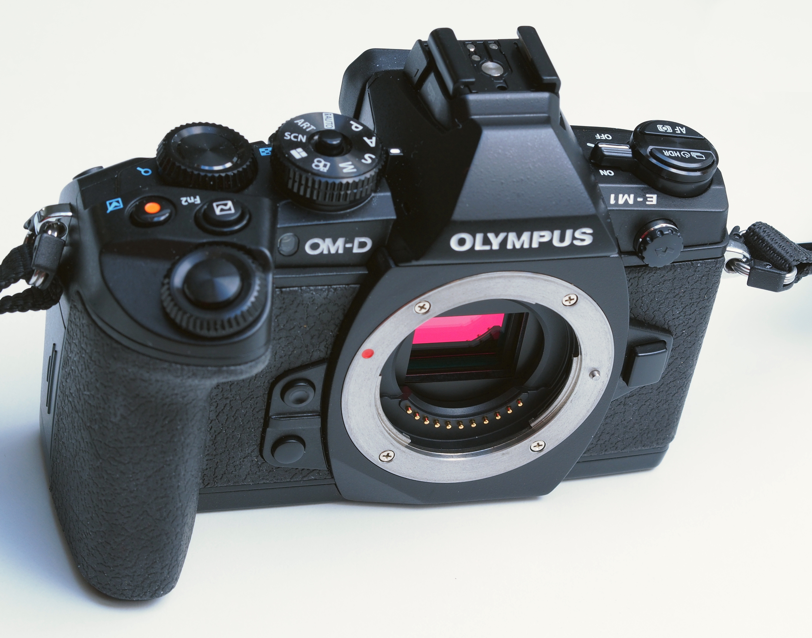 Olympus OM-D E-M1: bayonet mount, connector pins and image sensor